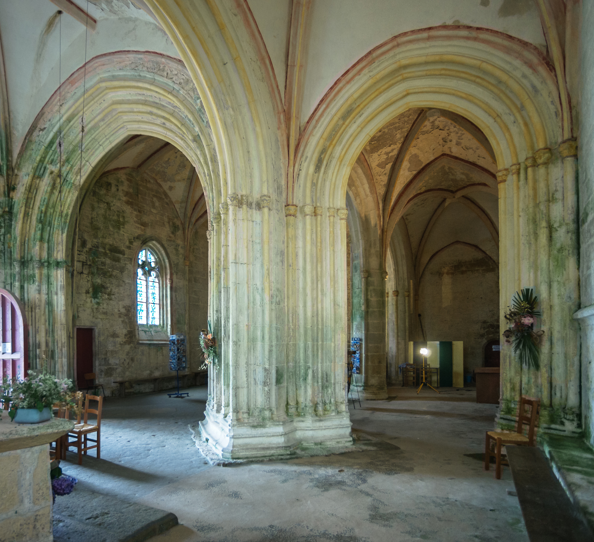 Chapelle Notre-Dame de Tronoën, Brittany. Central pillar supporting the steeple